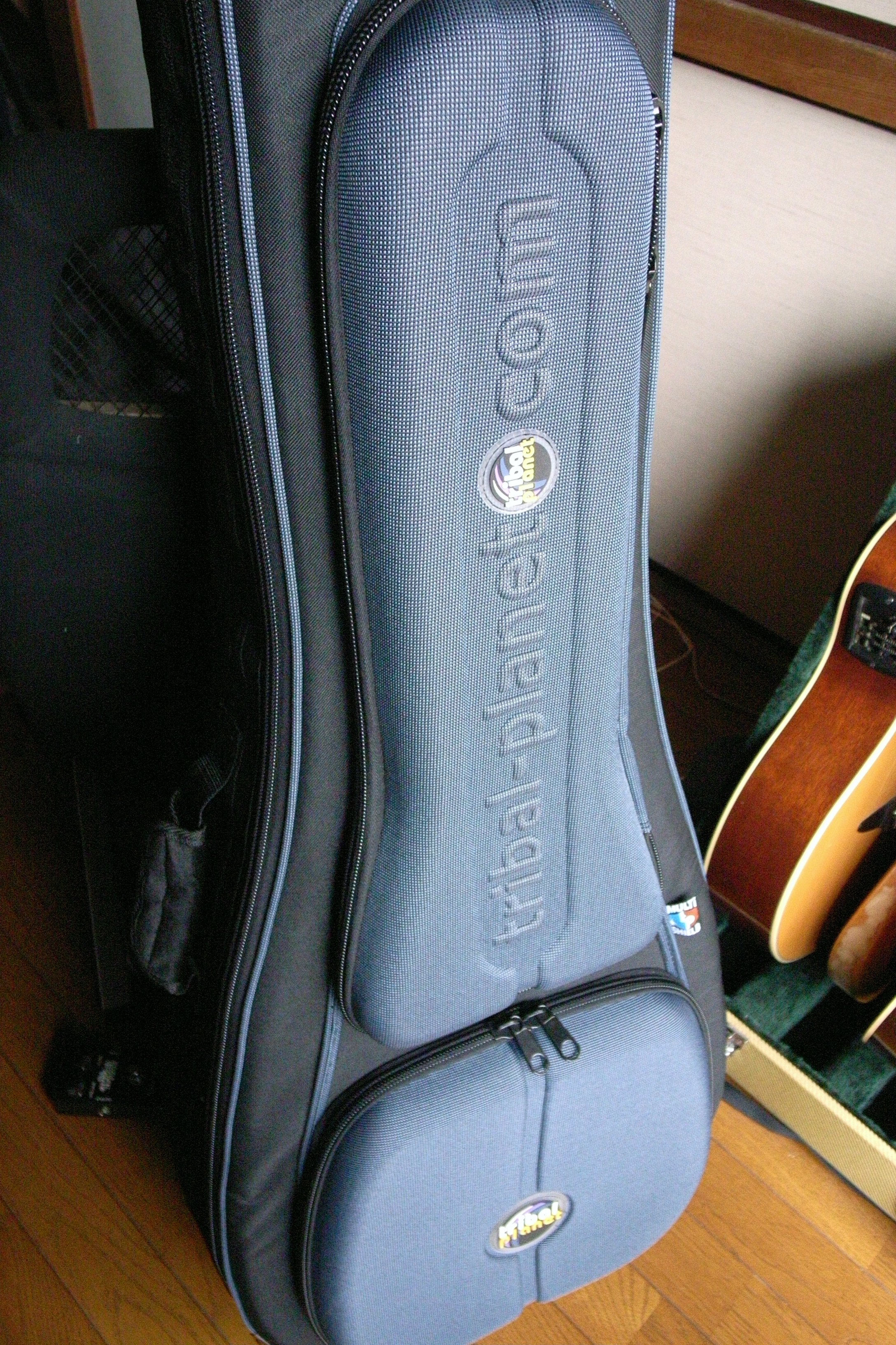 Tribal Planet GX15 DA gig bag (soft guitar case) inner: File:DeArmond Starfire Special in Tribal Planet GX15 DA.jpg